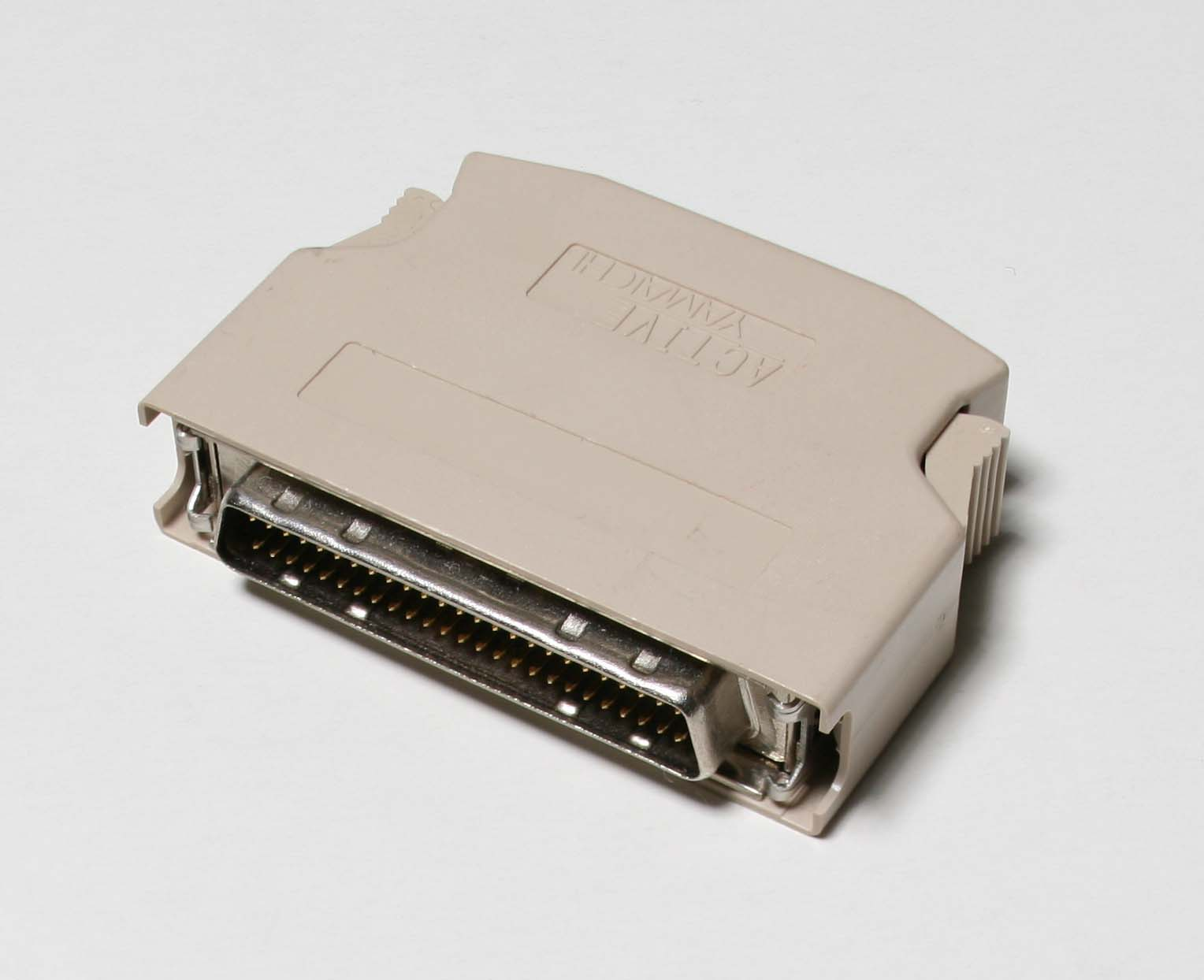 SCSI terminator with 50pin